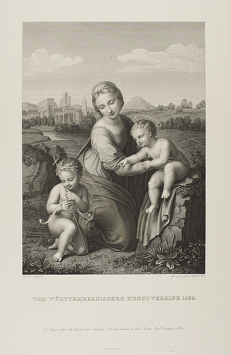 Mary with Jesus and John (Esterházy Madonna) , 1839 After Raphael's painting Engraving. 418 x 305 mm Inventory number: E814